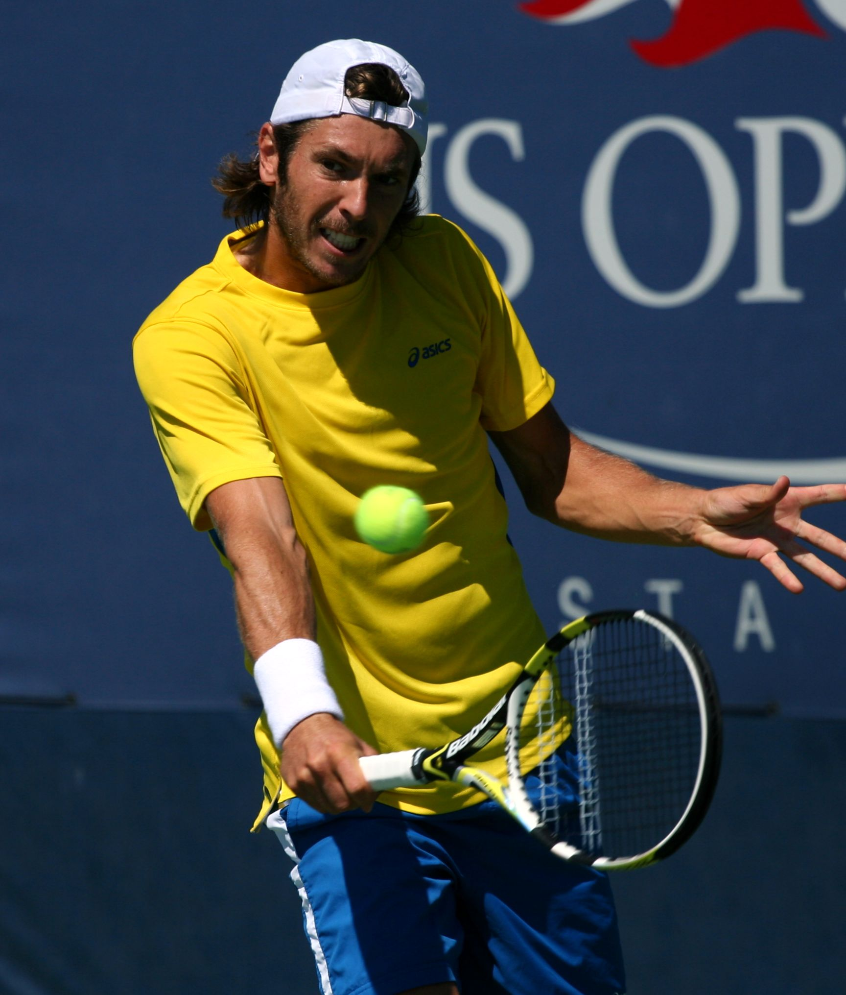 Augustin Gensse at the 2011 U.S. Open Monday, Aug. 29